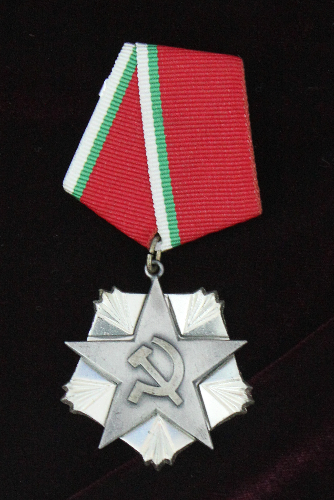 Historic Museum Ivailovgrad, Bulgaria